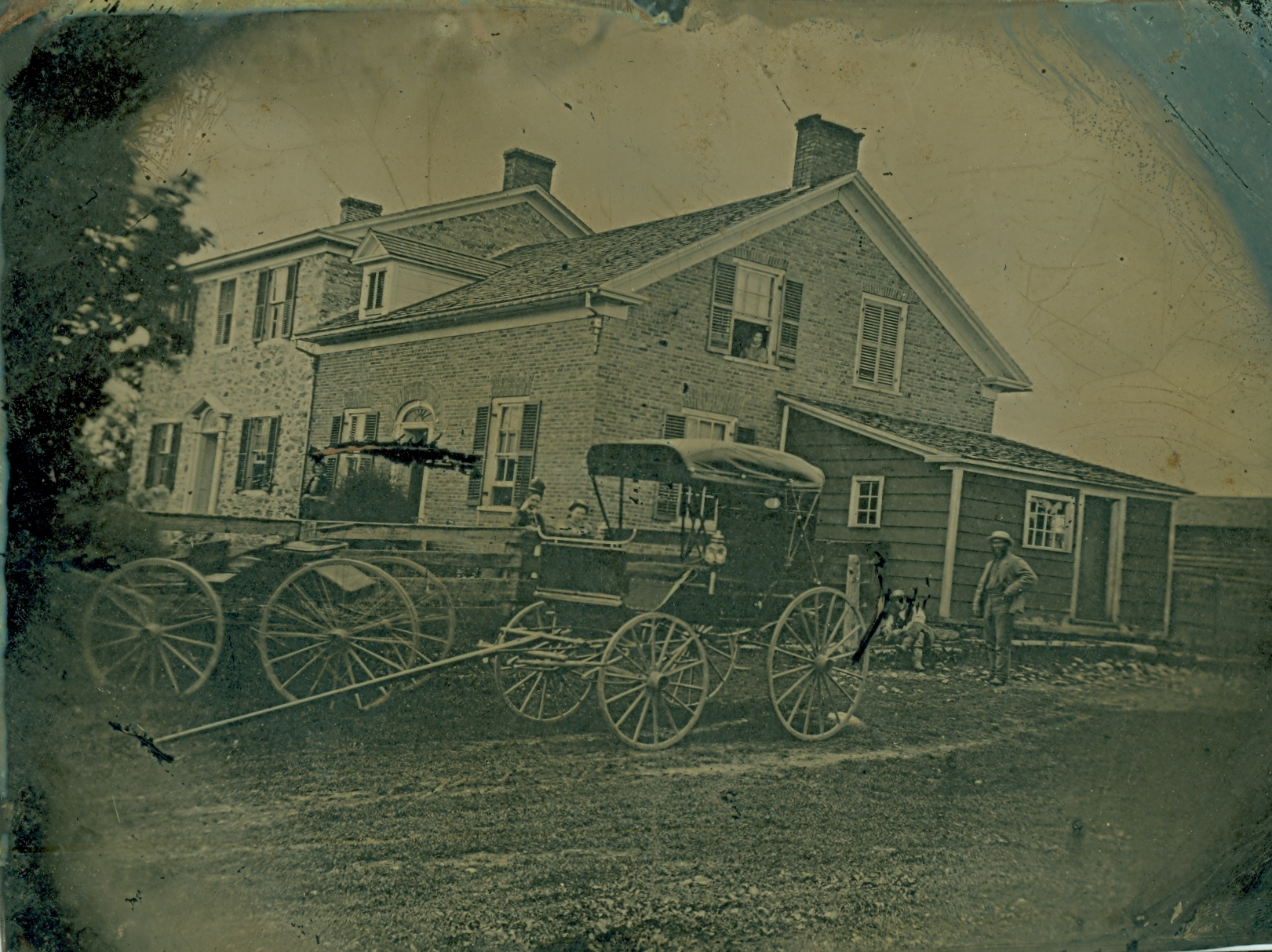 This image is a tintype photograph produced around 1860 of what is believed to be the home of the Merkle family, located in Aultsville, Ontario. This home was built in 1818 and was moved brick by brick to be rebuilt on Ontario Highway 2.